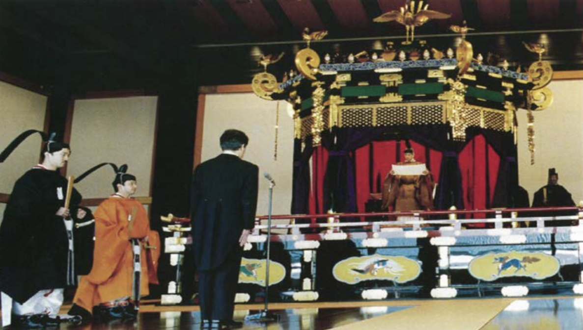 The picture of Enthronement Ceremony. I edited the PDF-file from